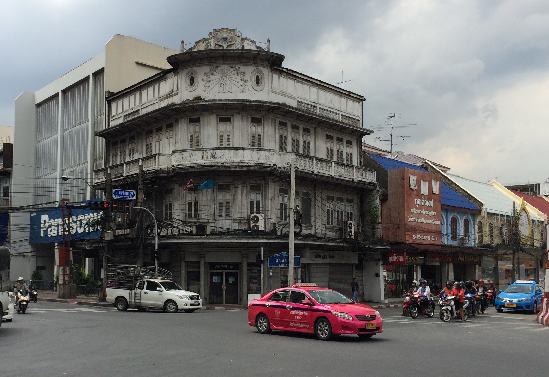 Image from the main street (Thanon) Charoen Krung, in central Bangkok, Thailand.